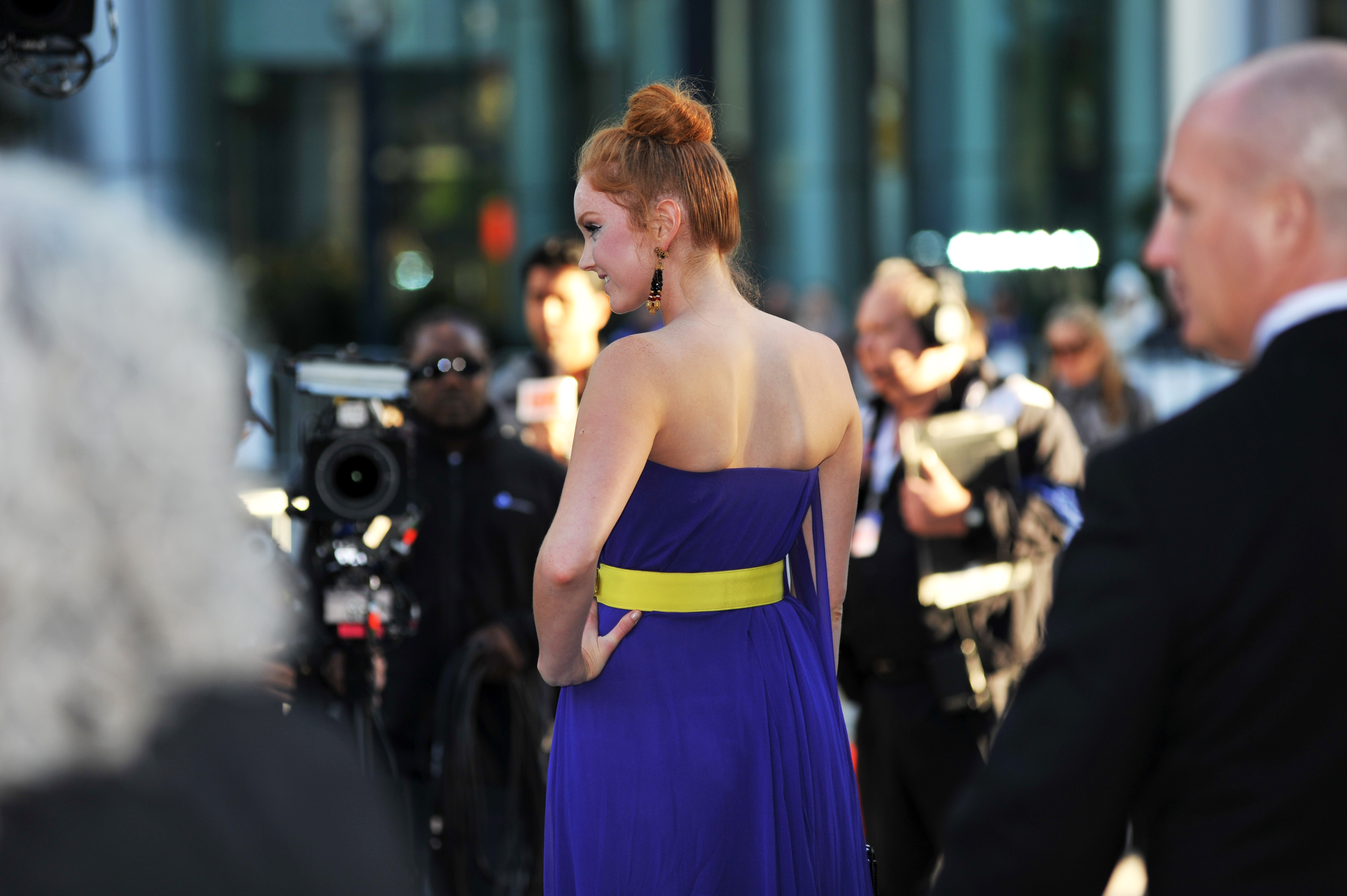 Lily Cole at the 2009 Toronto International Film Festival, for the screening of The Imaginarium of Doctor Parnassus.